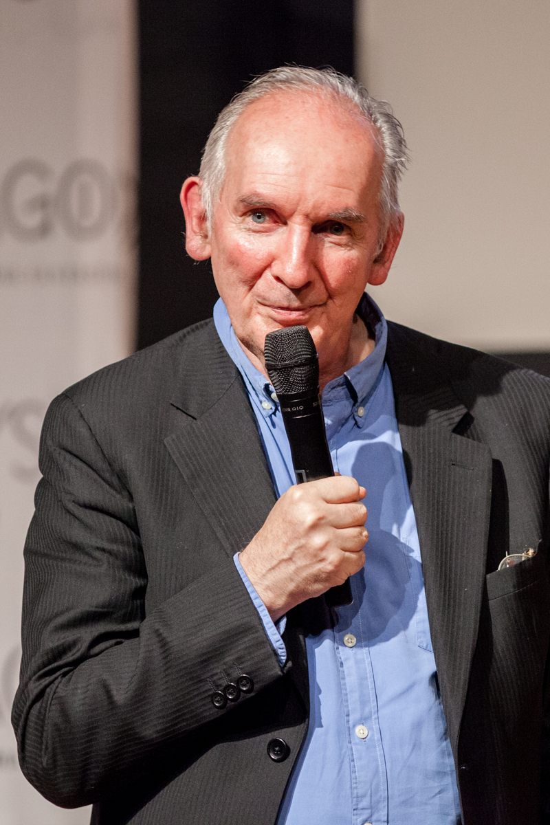 Alan Lee winner of the "Schwäbischen Lindwurm" 2016